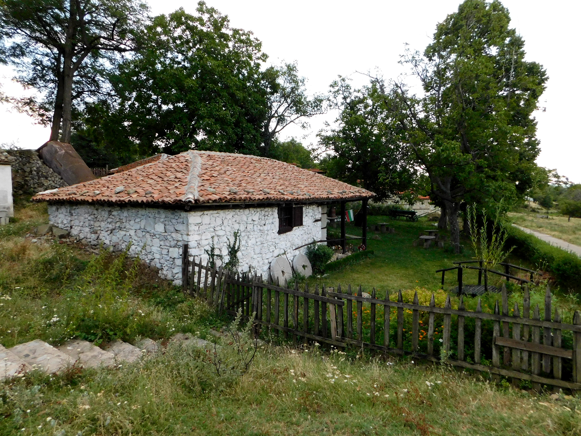 Grandfather Stoyan's watermill, Sopot, Bulgaria